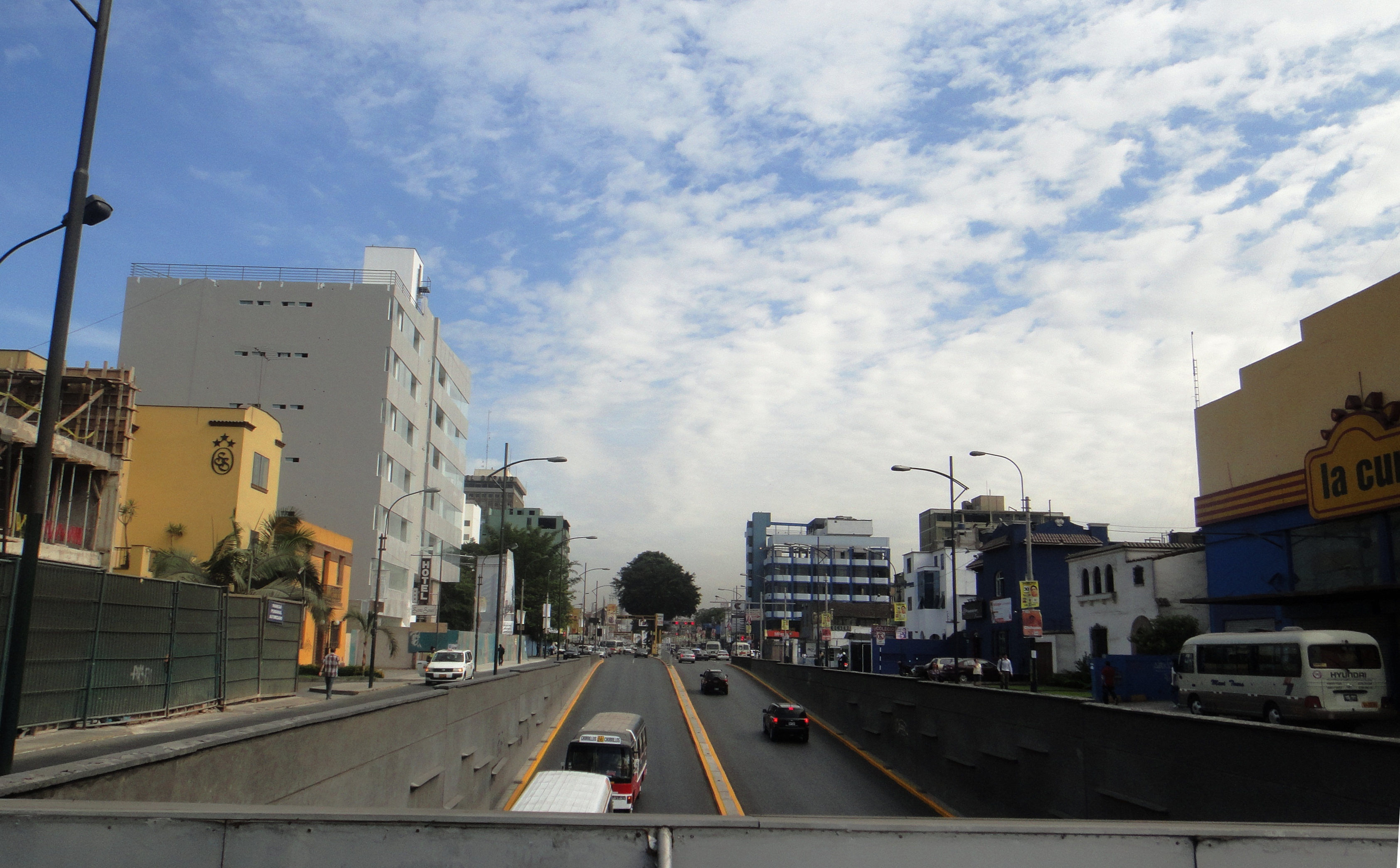 Arequipa Ave. in San Isidro District, Lima-Peru.